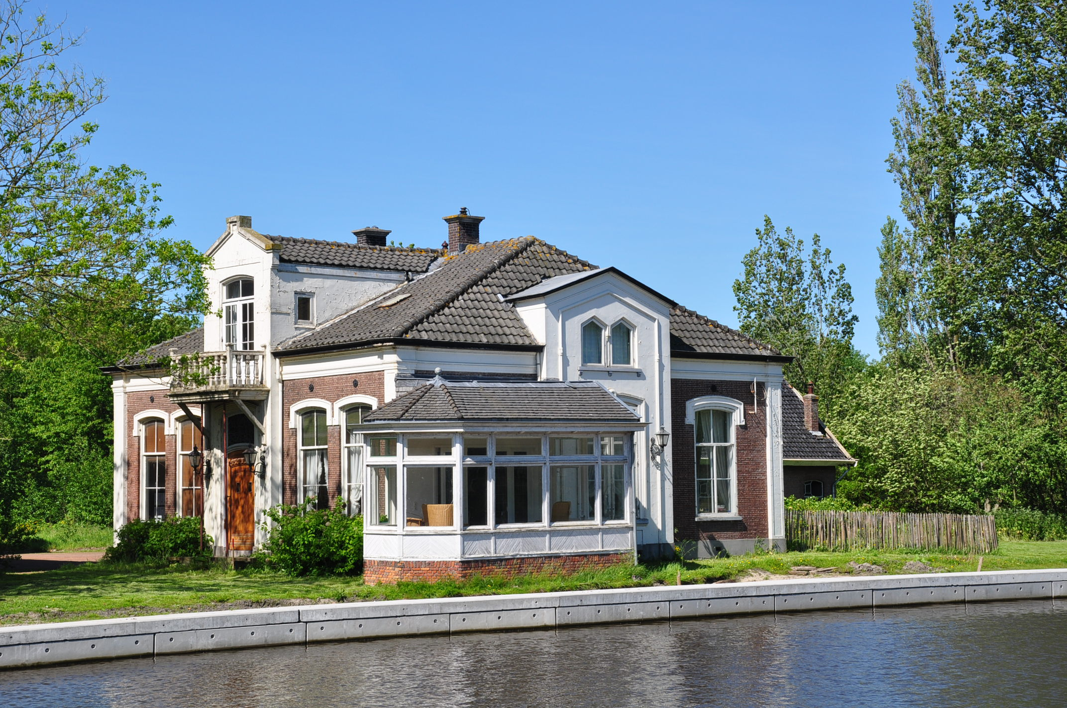 Home of the managing director of the former pottery factory "Nieuw Werklust" along the Old Rhine at Groenendijk (a hamlet between Zoeterwoude-Rijndijk and Hazerswoude-Rijndijk, municipality Rijnwoude, Province South Holland, Netherlands). The house was built in the late 19th century and is a listed building.